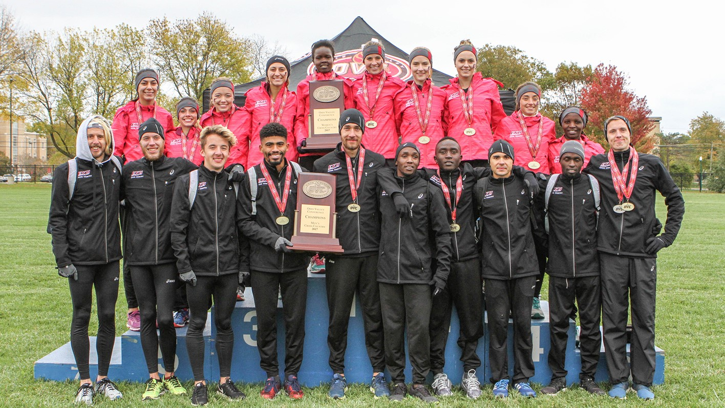 Jakob Dybdal Abrahamsen og EKU holdet